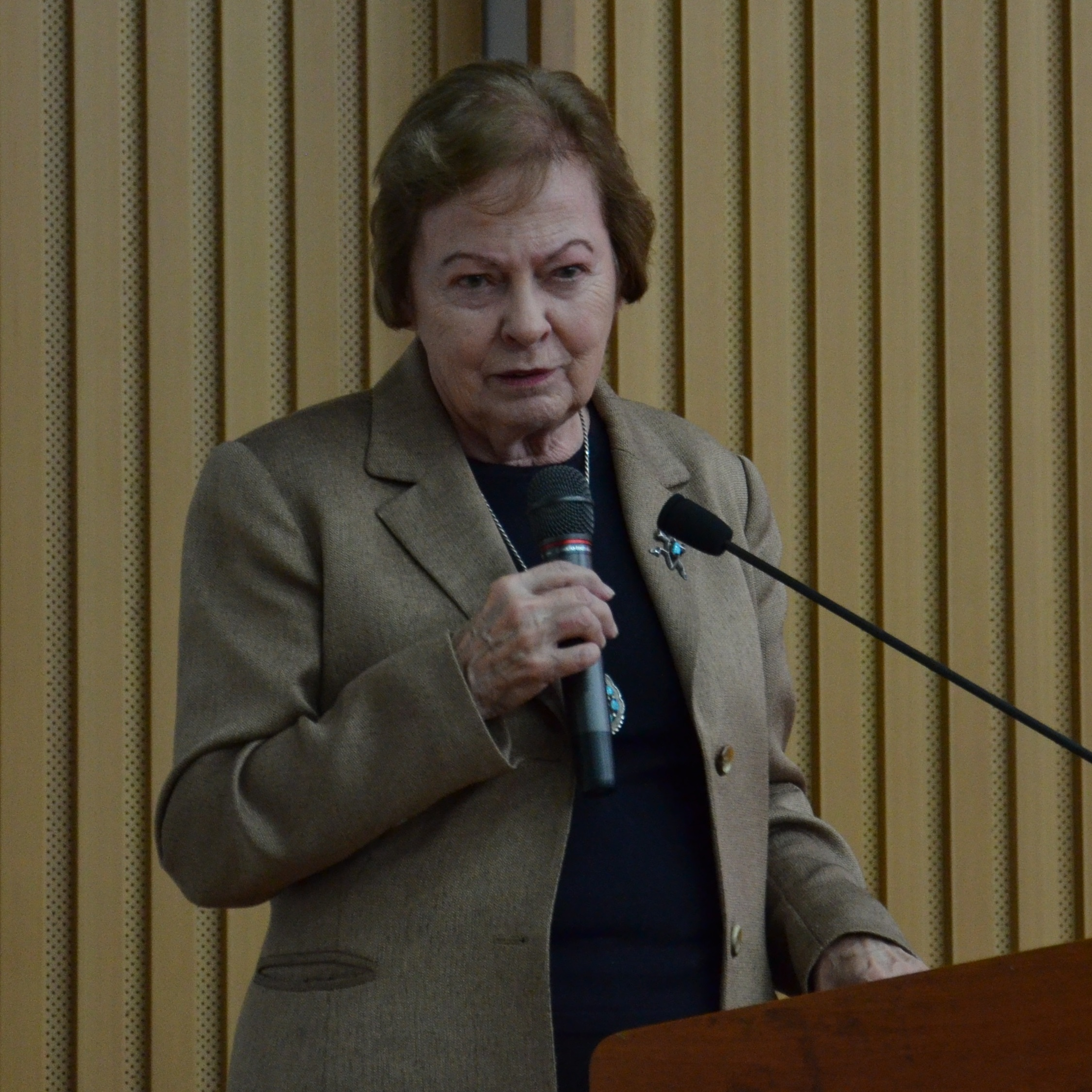 Nel Noddings lecturing, 2011. Picture taken by her husband, who left it to her when he died. Prof. Noddings has agreed to release it under CC-BY-SA license.